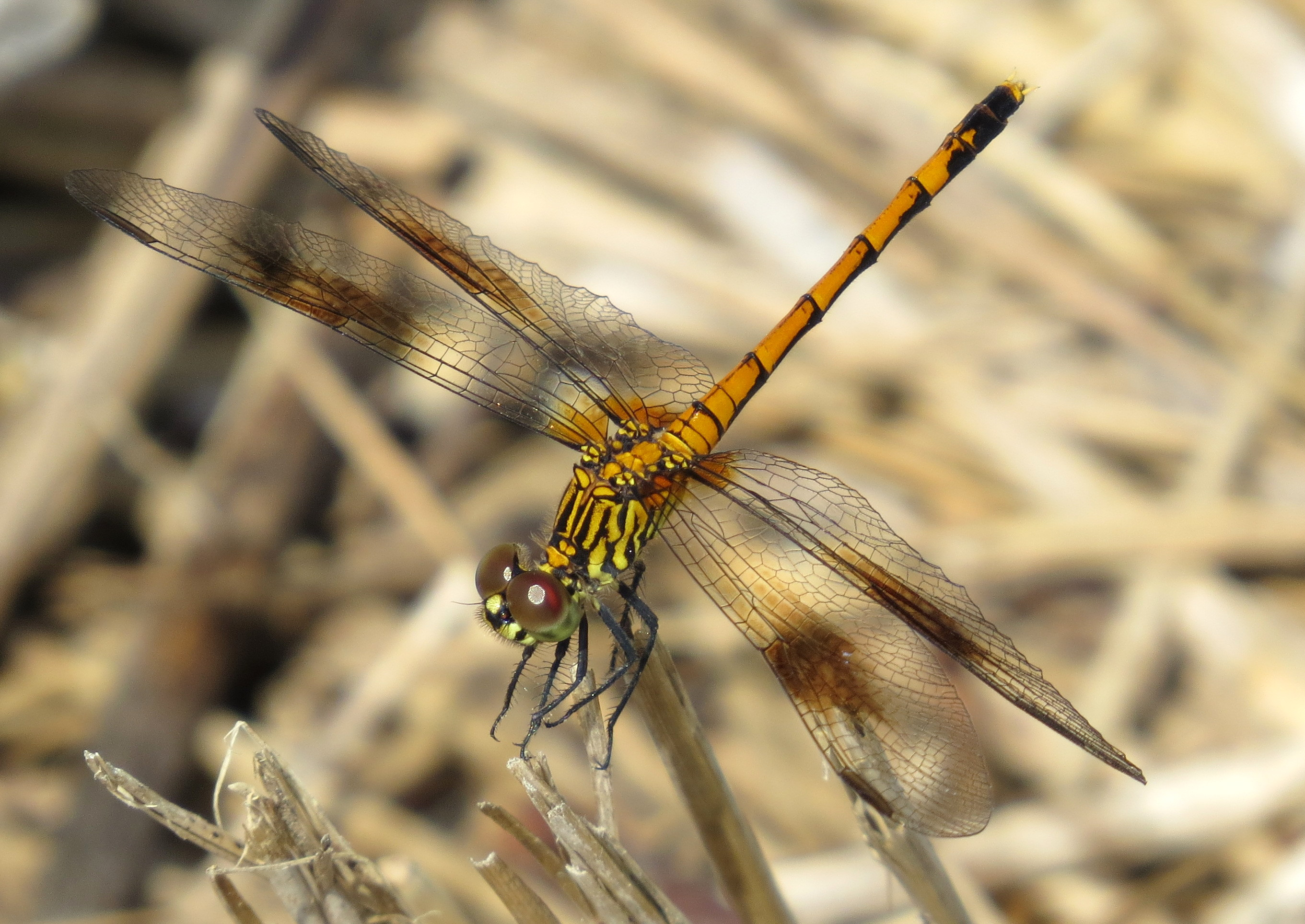 Seaside dragonlet, Erythrodiplax berenice. Female. Taken on Chincoteague Island, Virginia.